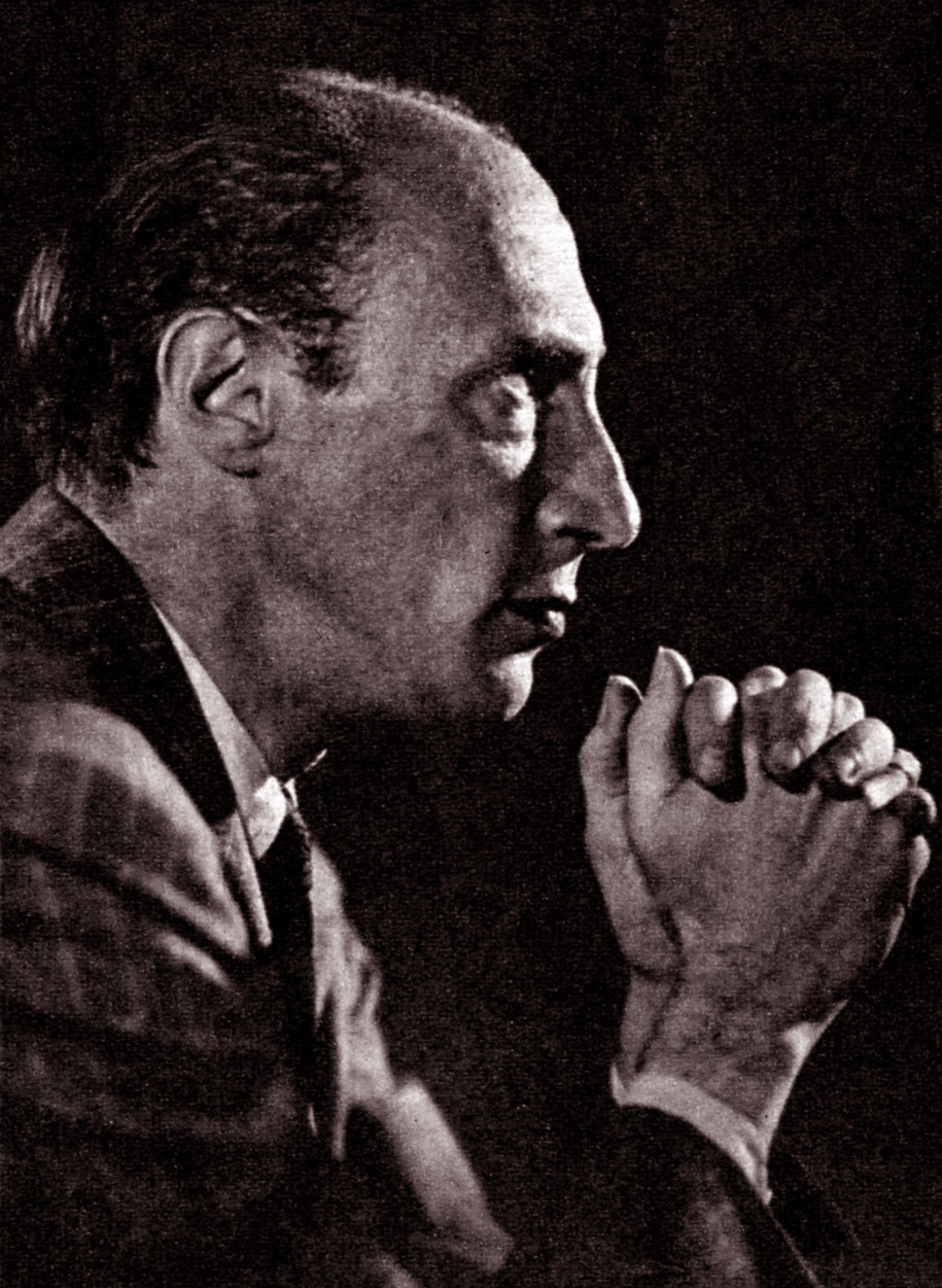 photo from the Italian magazine Cineguida (1953)